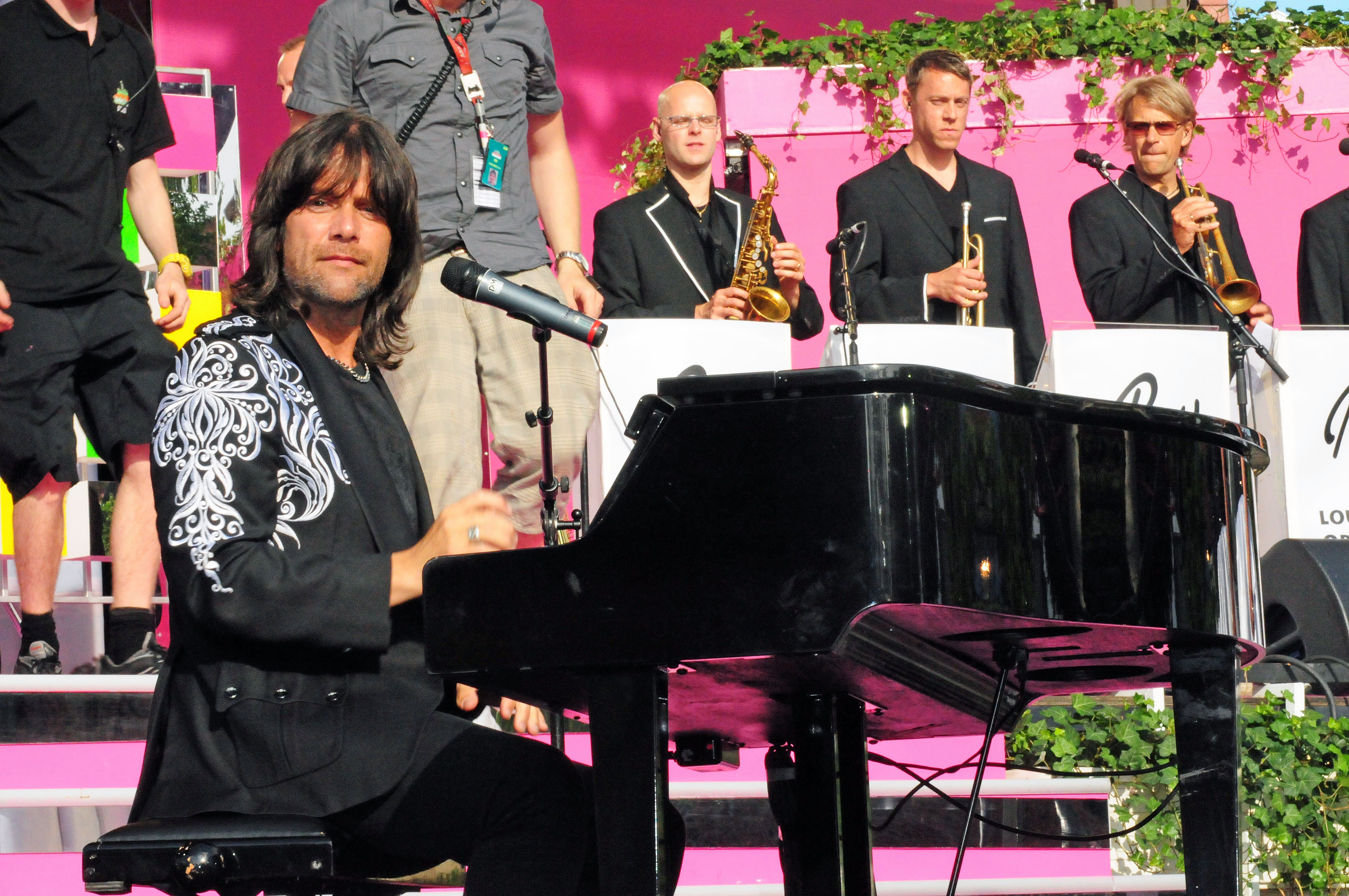 Robert Wells at Sommarkrysset 2009